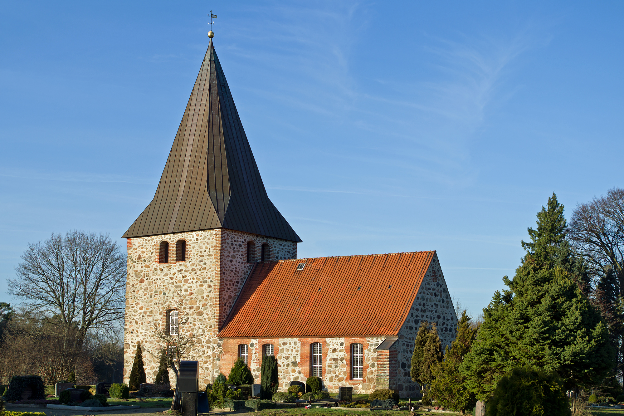 Church of Woltersdorf (district Lüchow-Dannenberg, northern Germany).